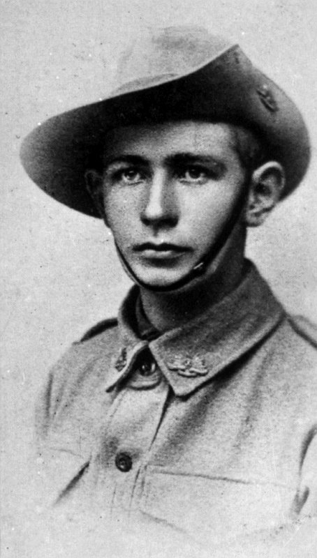 Portrait of Australian First World War Victoria Cross recipient Corporal Arthur Charles Hall, 54th Battalion.